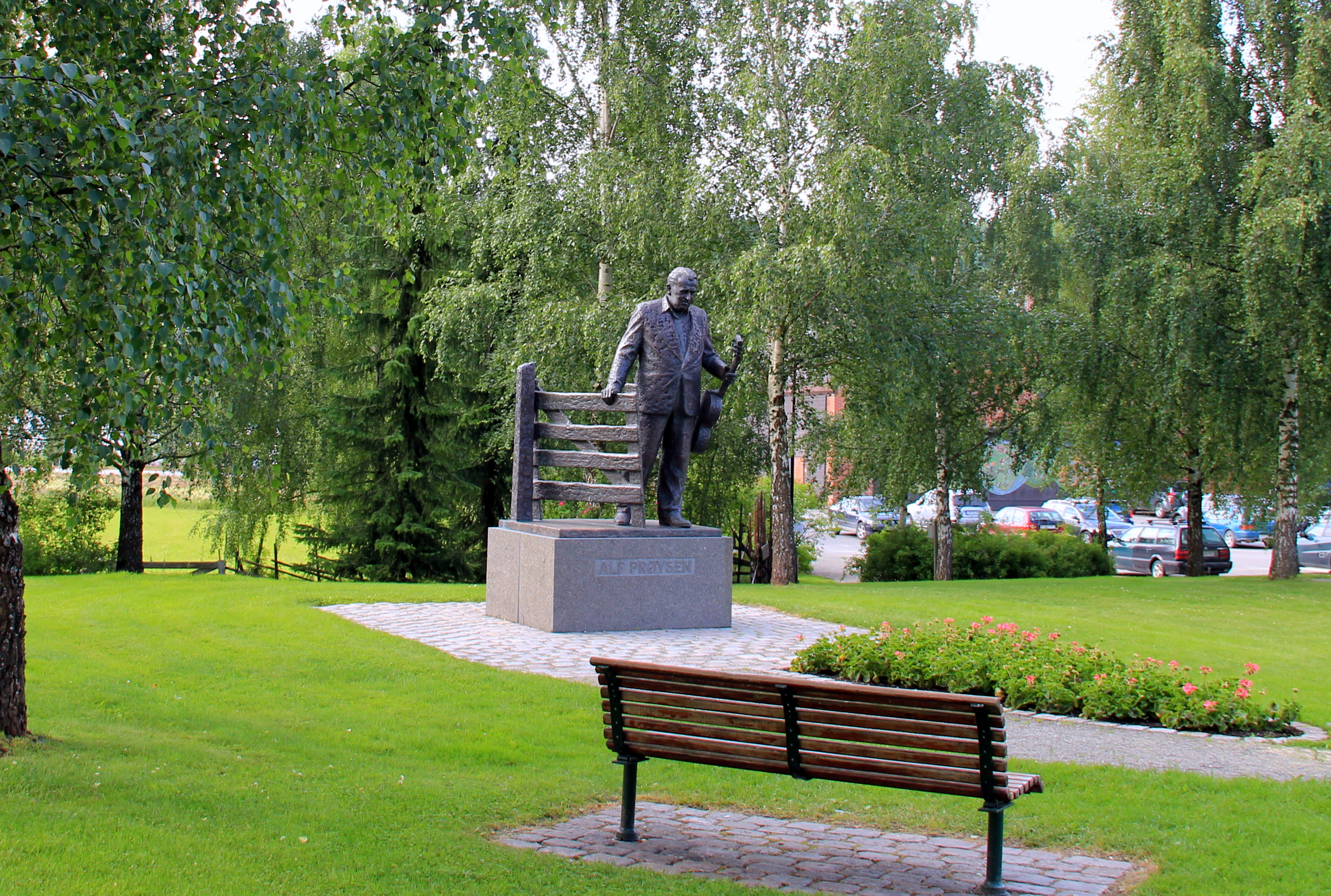 Statue of Alf Prøysen, in a park next to Prøysenhuset in Rudshøgda, Ringsaker